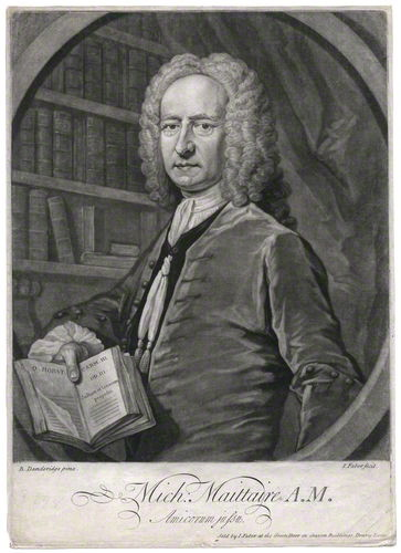 Mezzotint portrait of Michel Maittaire (1668–1747), Huguenot scholar in England.